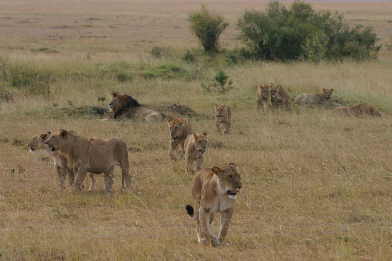 Lions, Location: Near Govenors Camp, in the Massai Mara, Kenya